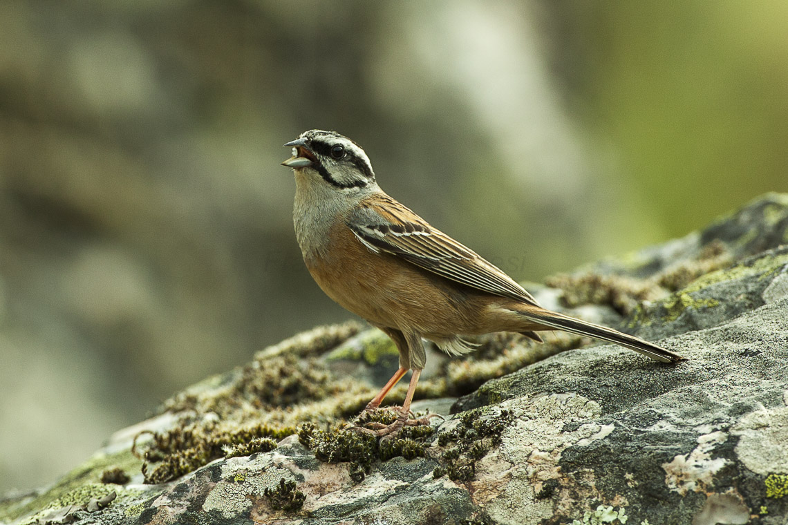 Rock Bunting - Spain_2031